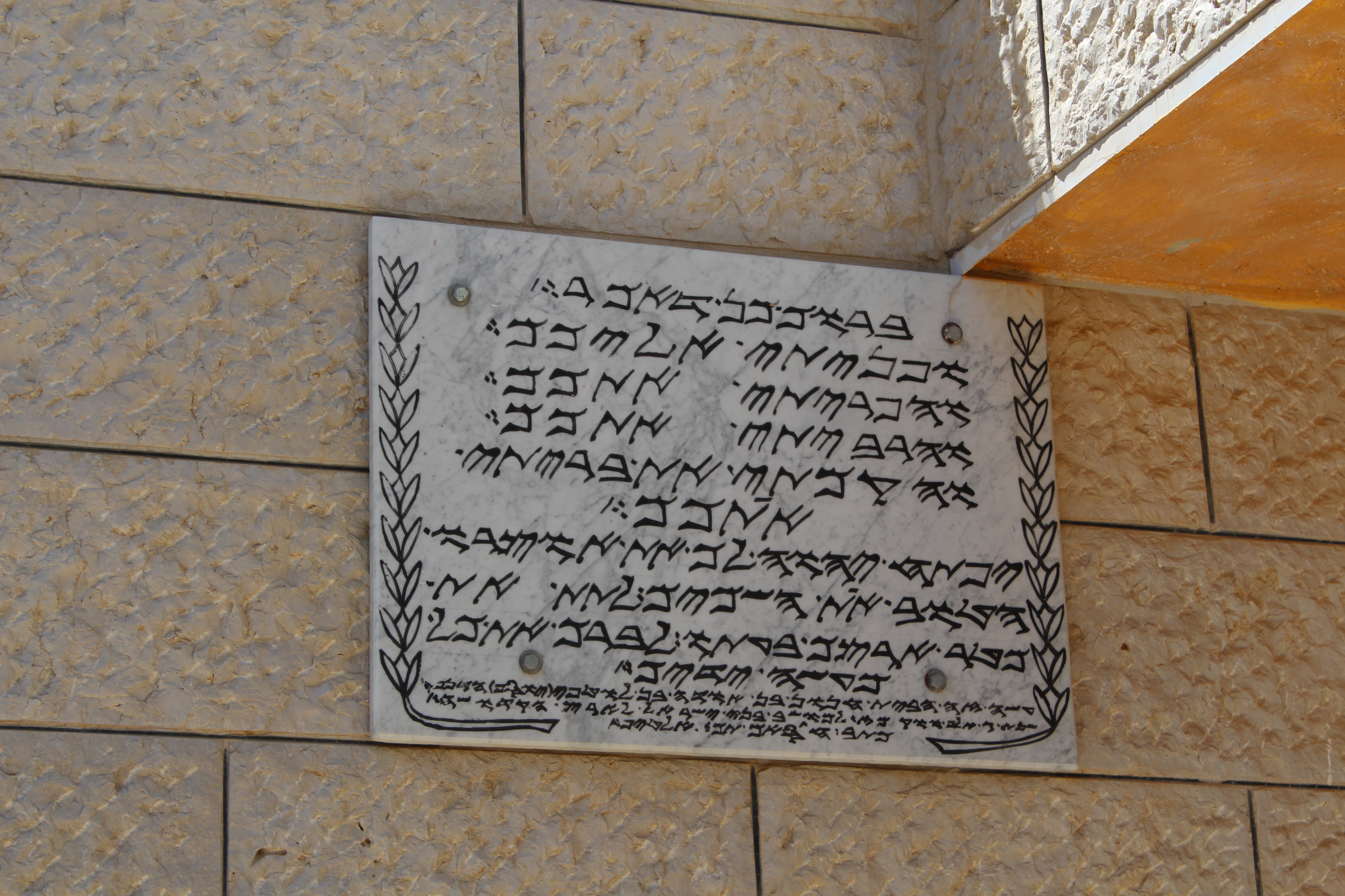 MSamaritan Mezuzah, Mount Gerizim This image was taken as part of the Elef Millim project trip to Mount Gerizim, near the town of Nablus (biblical Shechem) which was held on Friday, 26th April 2013. To view all images uploaded as part of the Elef Millim Project